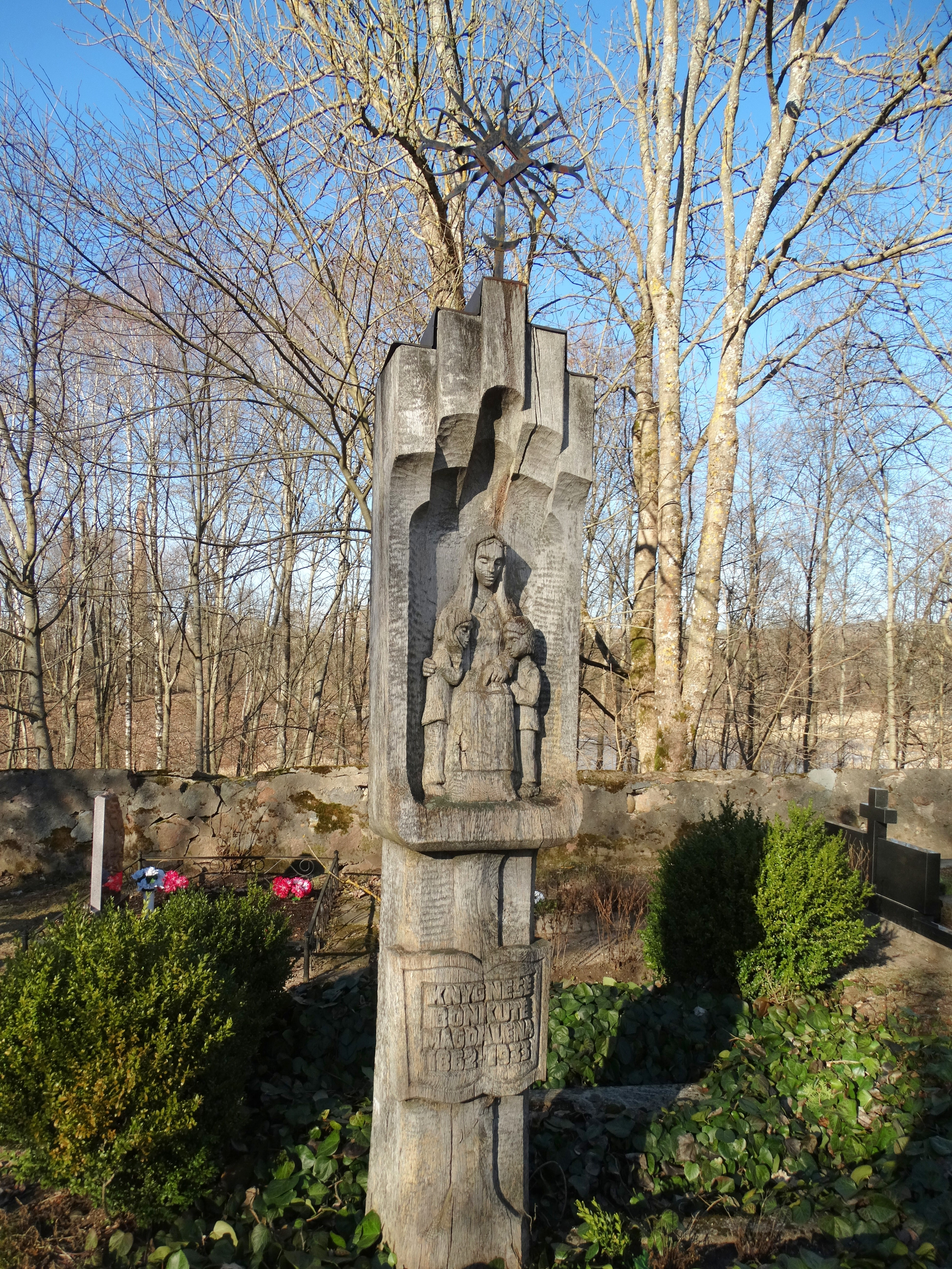 Tomb of Magdalena Bonkutė, Plungė, Lithuania